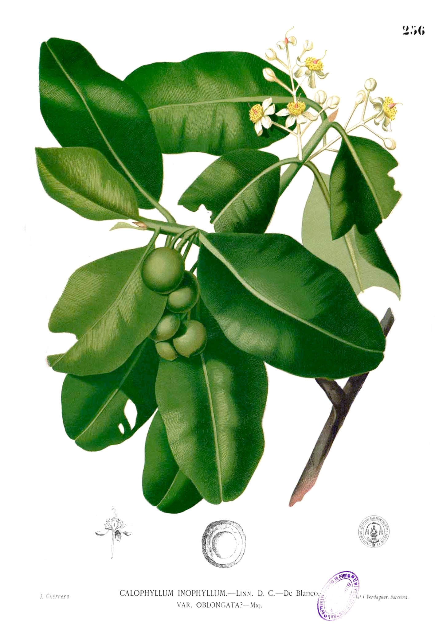 Plate from book